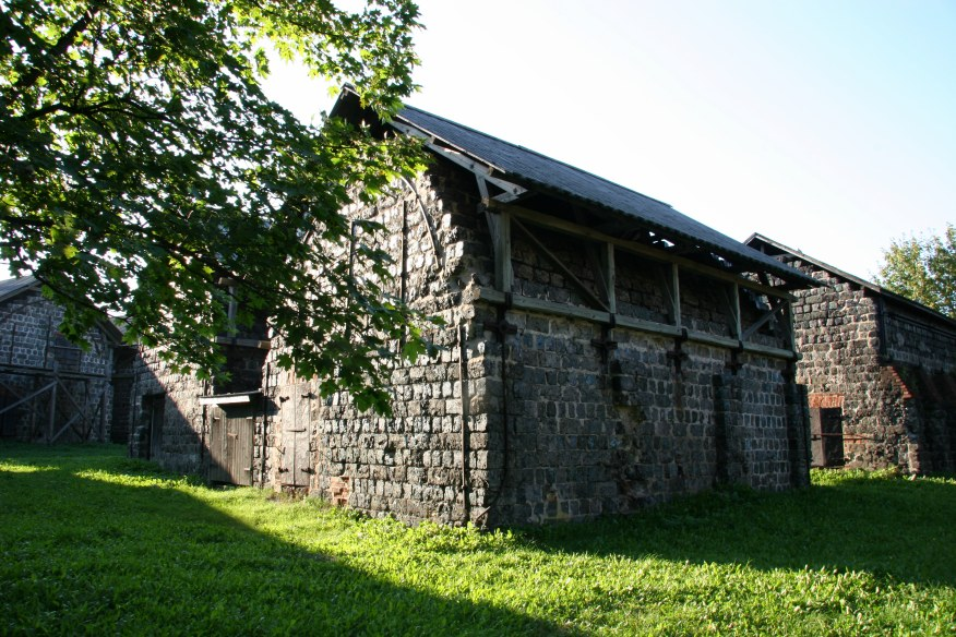 Dalsbruk coal furnaces